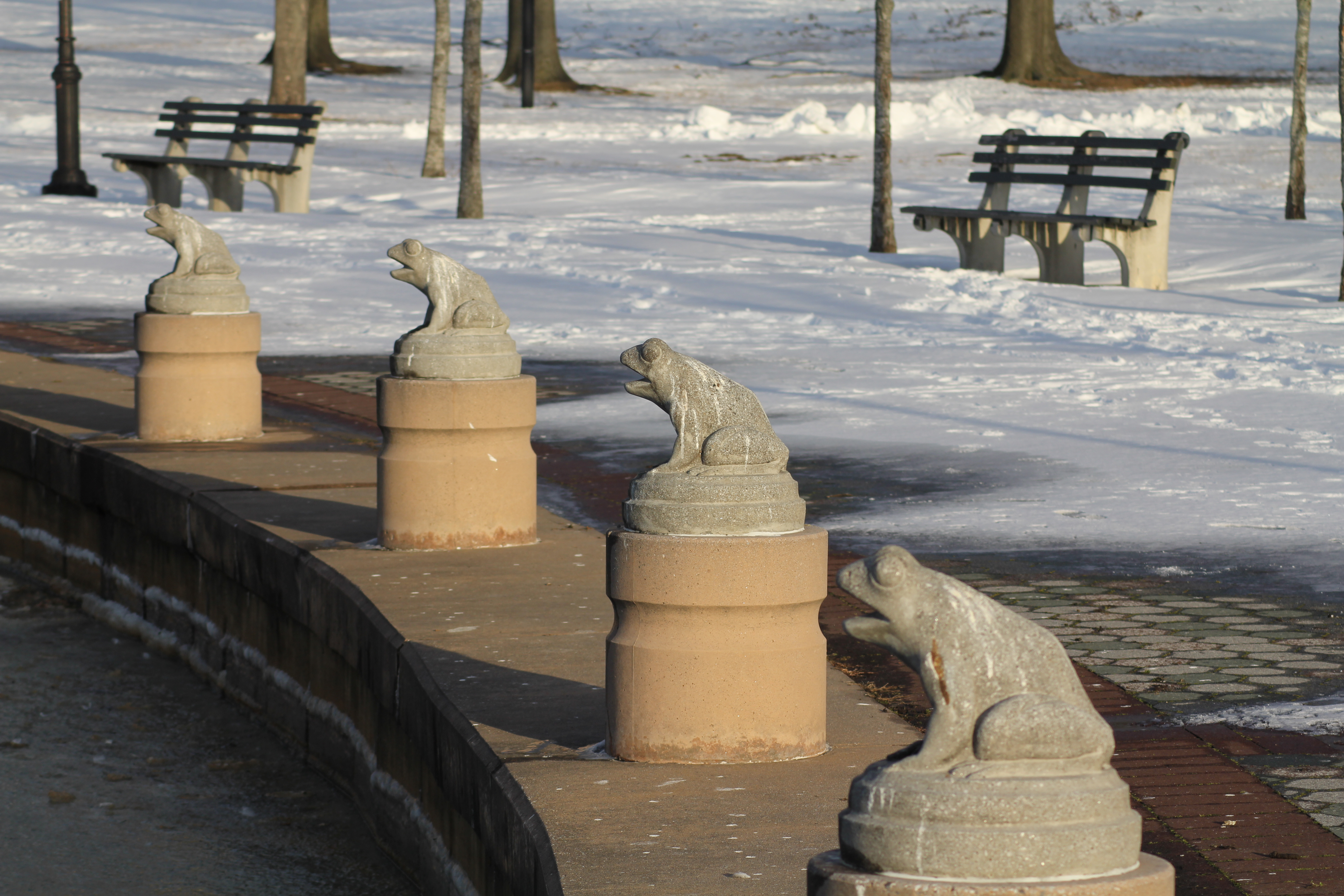 A row of stone frog statues graces the southeastern shore of the pond in Baisley Pond Park, South Jamaica, Borough of Queens, New York City, seen here in winter.